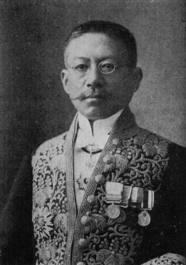 Taki Ōtake, 1st director of the Kiryu Higher Technical School.